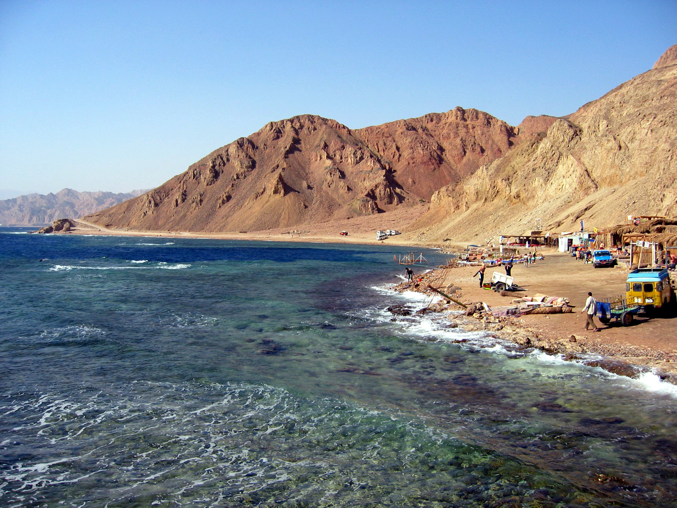 Diving place "Blue Hole" at Dahab, Egypt